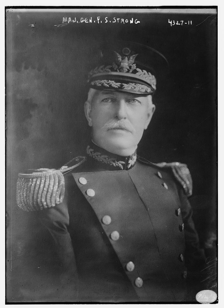 Major General Frederick Smith Strong in 1917